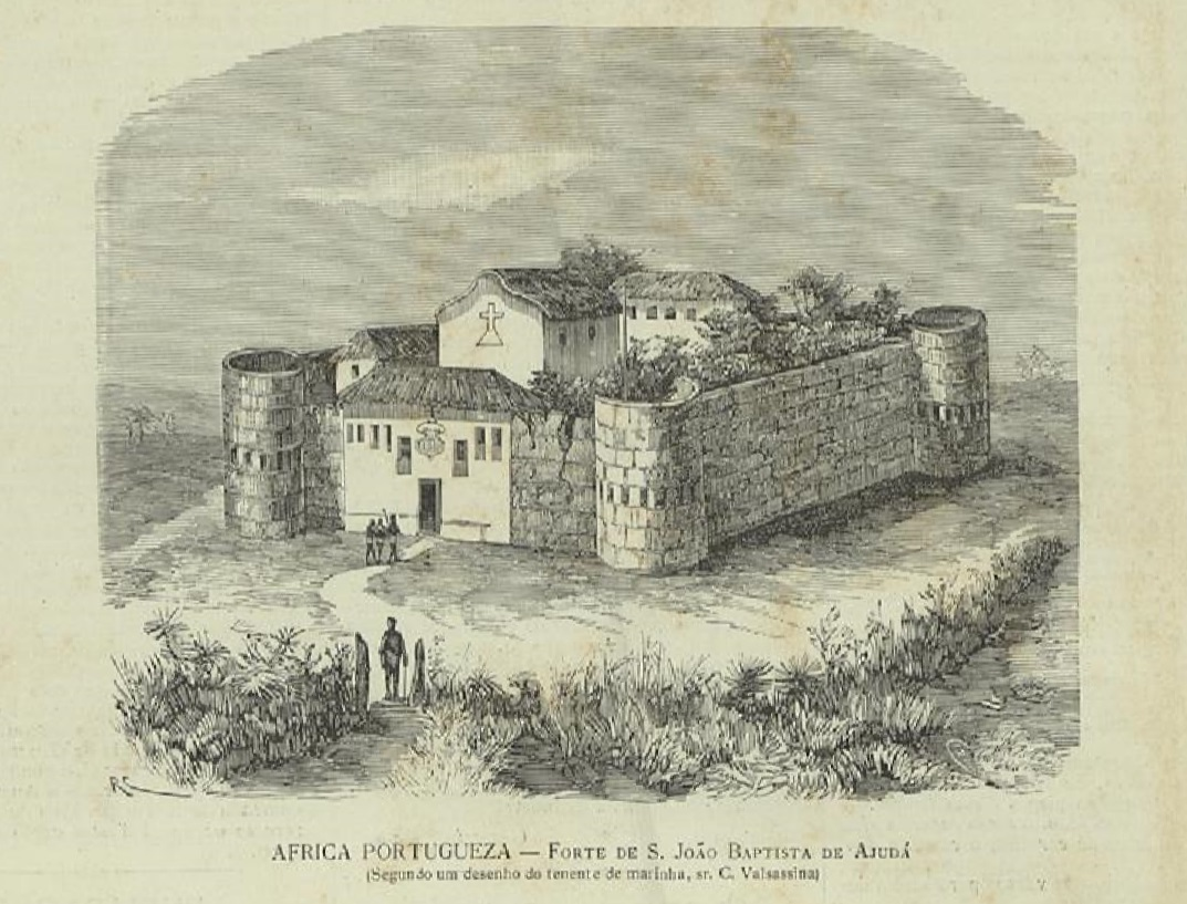 This eerie engraving of the fort of São João Baptista de Ajudá, Dahomey (now Benin) was published in the Portuguese magazine O Ocidente in 1886. With its high walls and gloomy aspect, it presents a somewhat imaginary view of the fort that does not correspond to 19th century descriptions by visitors and another more realistic engravings published in 1890. Le walls of the fort were about three meters high and made of mud mixed with clay.